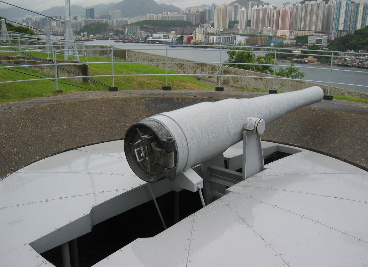 Hong Kong Coastal Defense Museum - 6 Inch BL Disappearing Guns